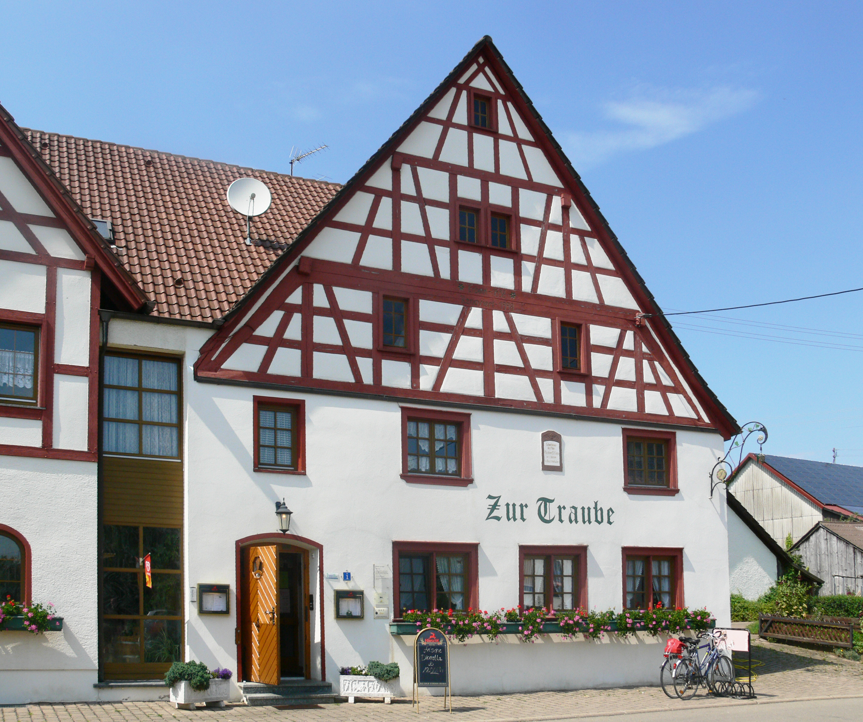 Birthplace of Abraham a Sancta Clara (né Ulrich Megerle) in Kreenheinstetten, municipality of Leibertingen; today used as the restaurant „Gasthaus zur Traube“